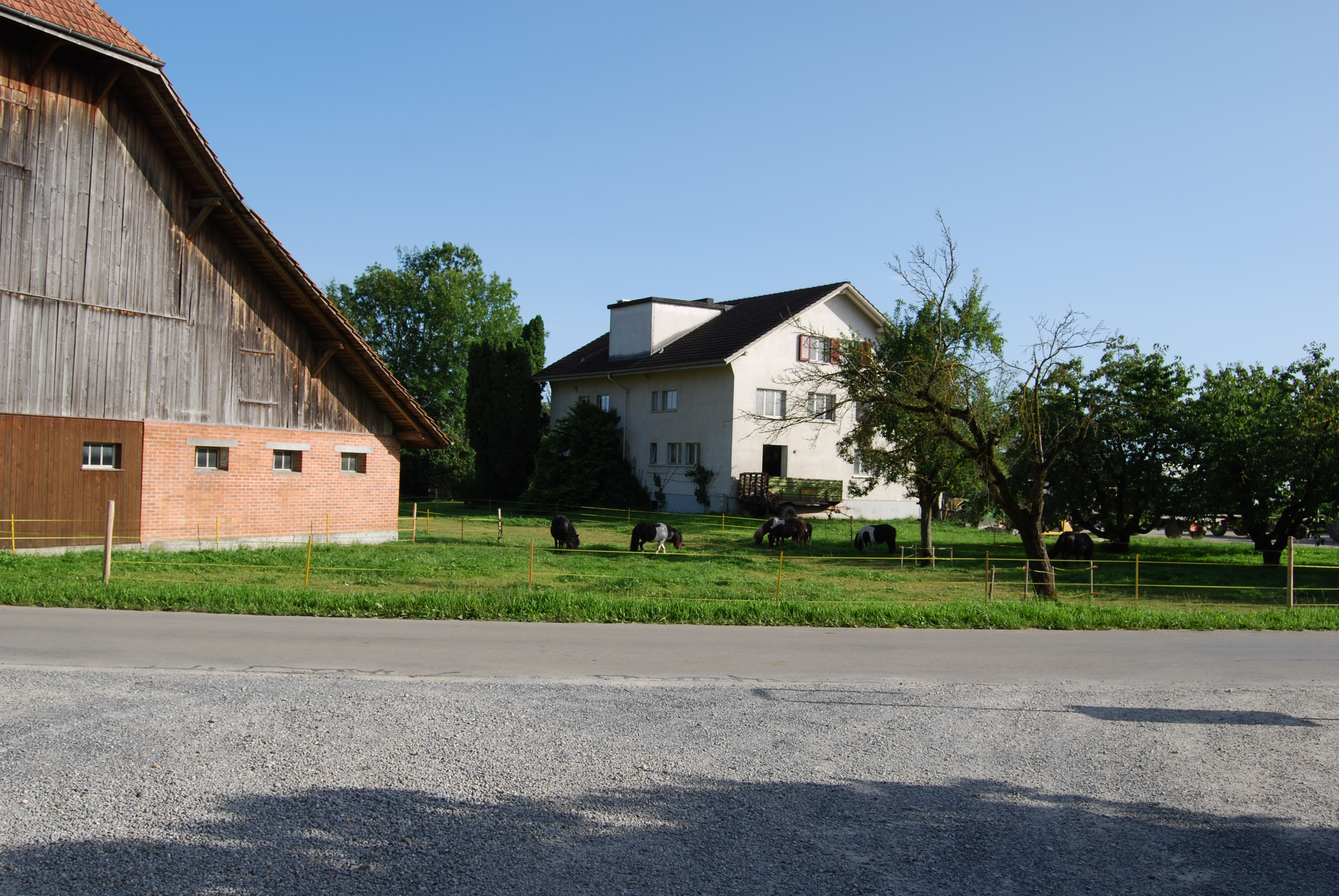 Gurbrü, canton of Bern, SwitzerlandEsperanto: Gurbrü, Kantono Berno, Svislando